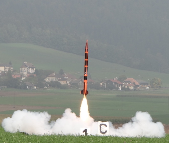 ARGOS rocket launch Val de Ruz